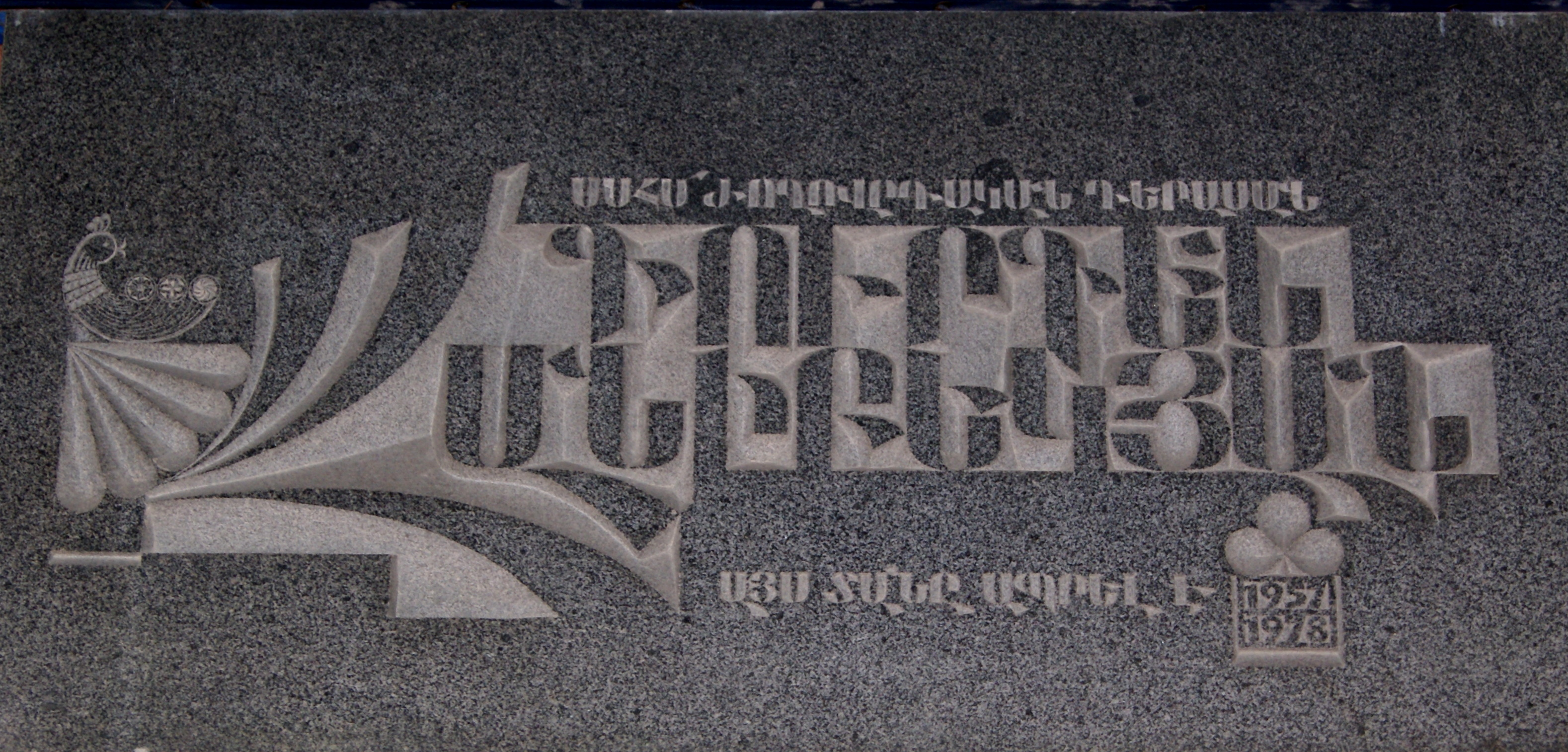 Gourgen Janibekyan's Plaque on Tamanian street, Yerevan